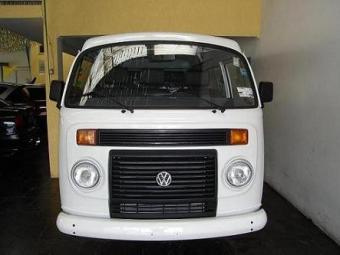 Picture of the Brazilian version of the Vw Type 2, '06 model, watercooled.